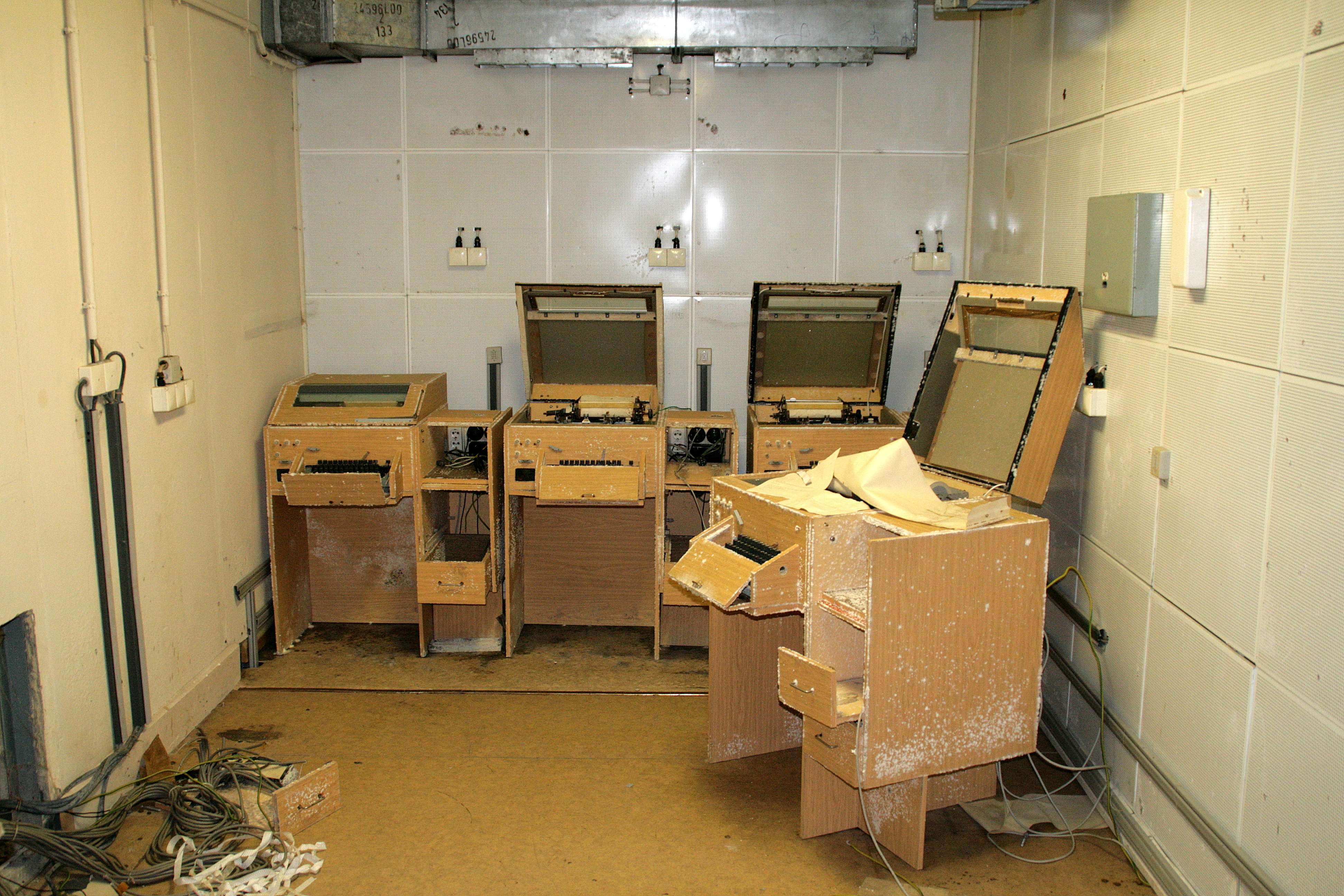 Bunker of Ministry of the Interior of GDR, Freudenberg, TO 02, telex room